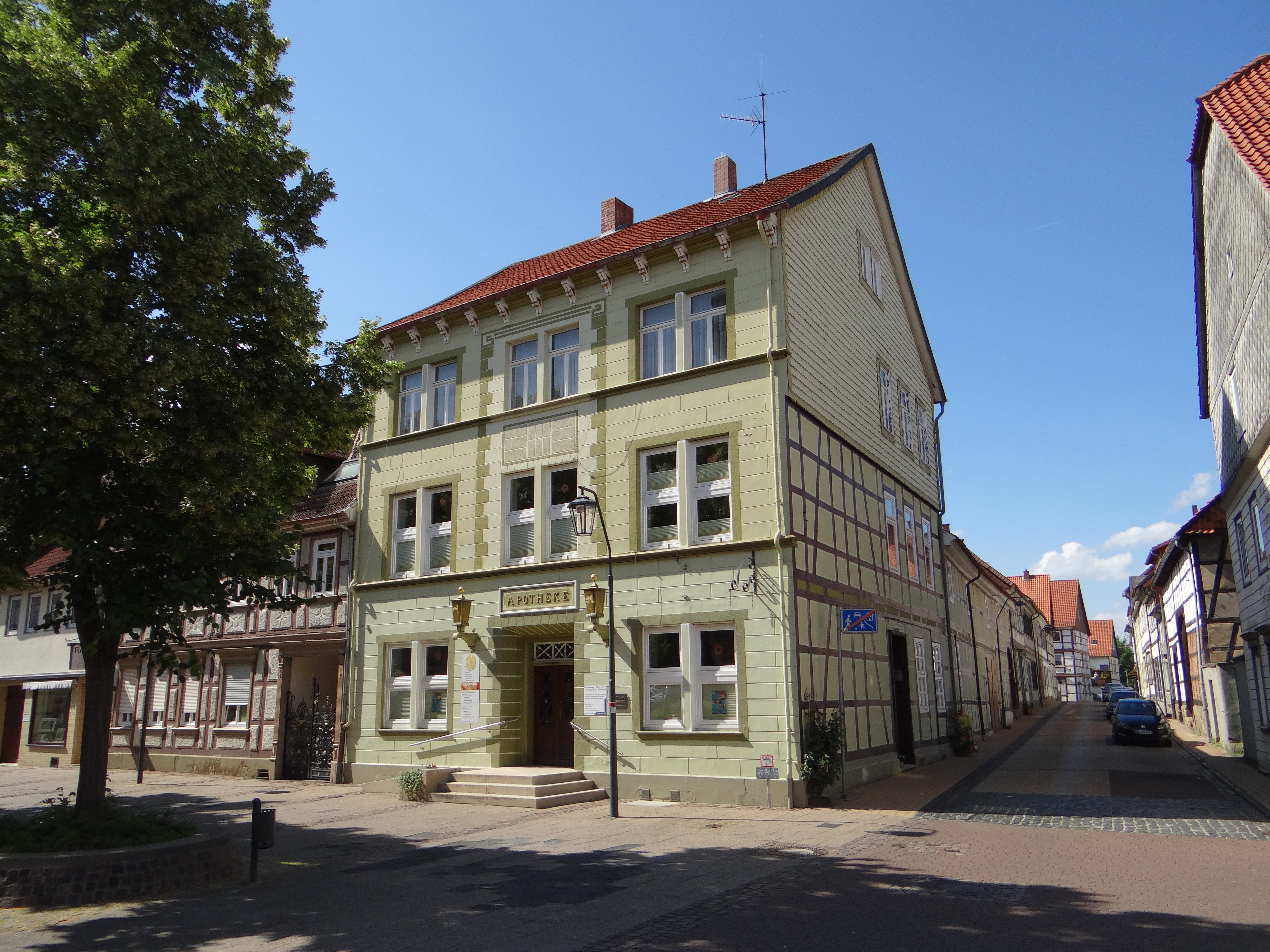 Old pharmacy in Bockenem, Germany.